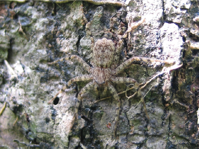 Selenops willinki